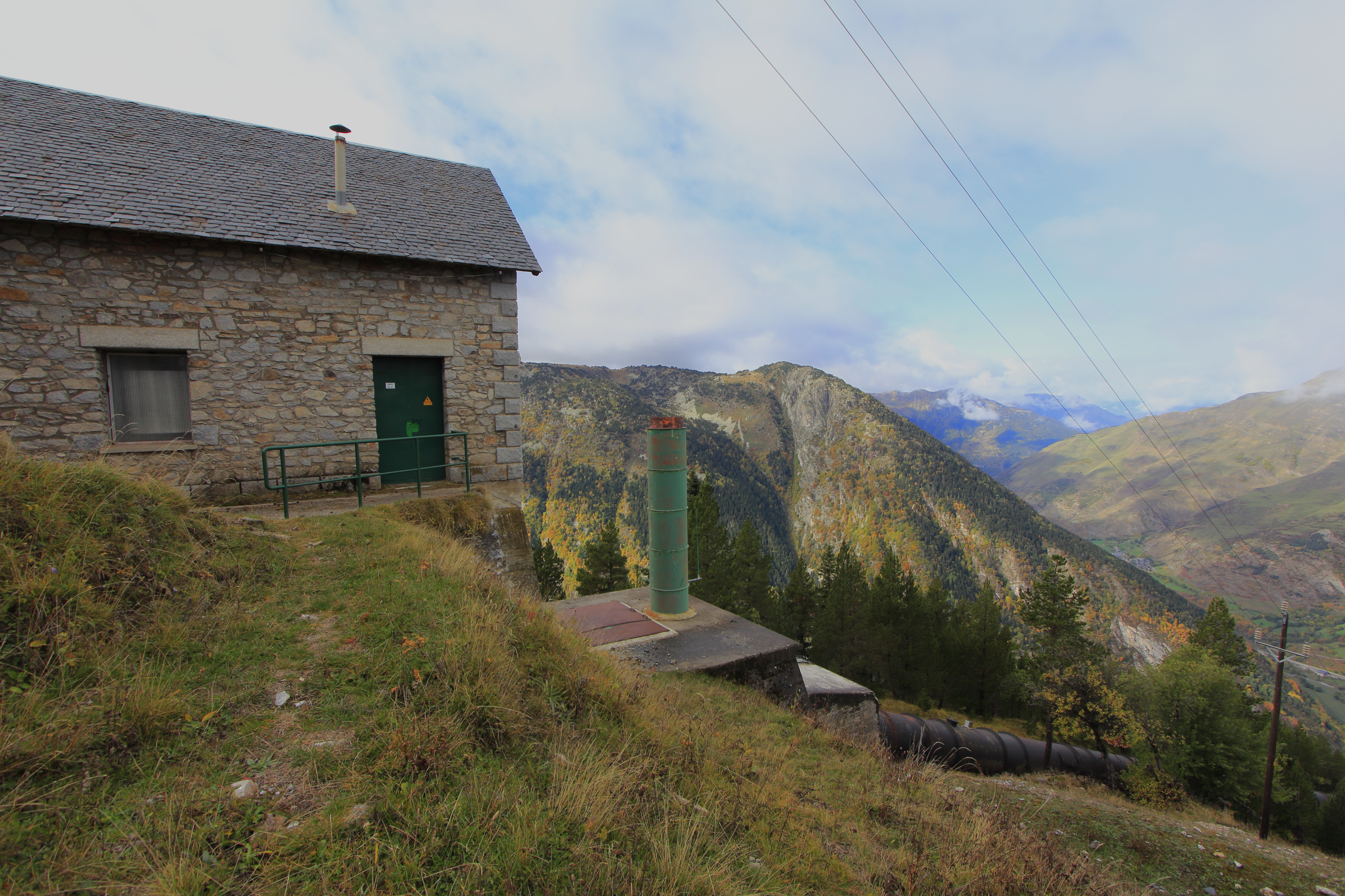 Arties hydropwer plant loading chamber, air pipe and penstock